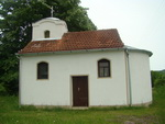 Filijalni hram Svetog apostola i jevanđelista Luke u Ribnjačkoj